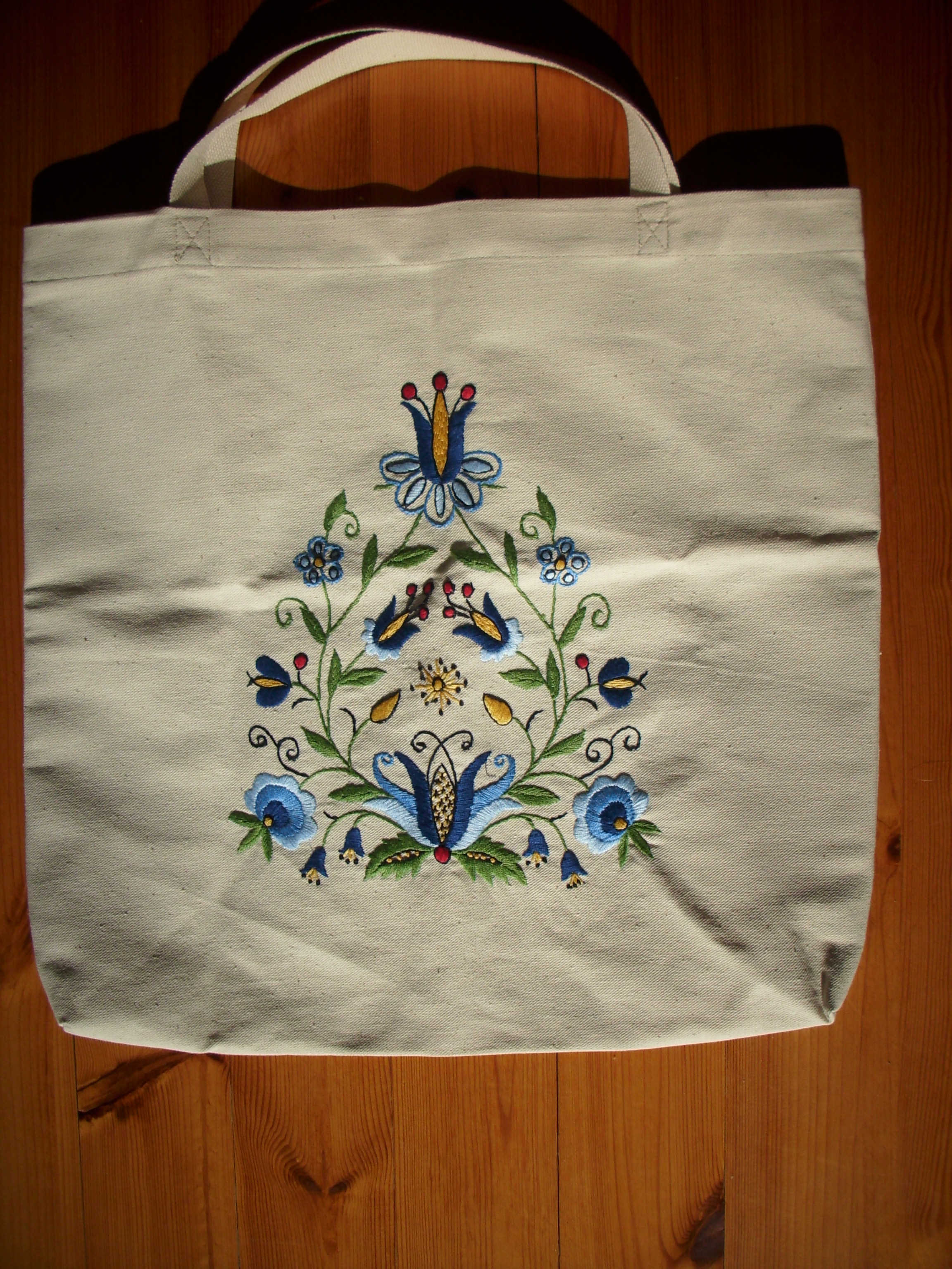 Kashubian embroidery of Zukowo school from Żukowo, Kashubia This photo has been taken in the country: Poland